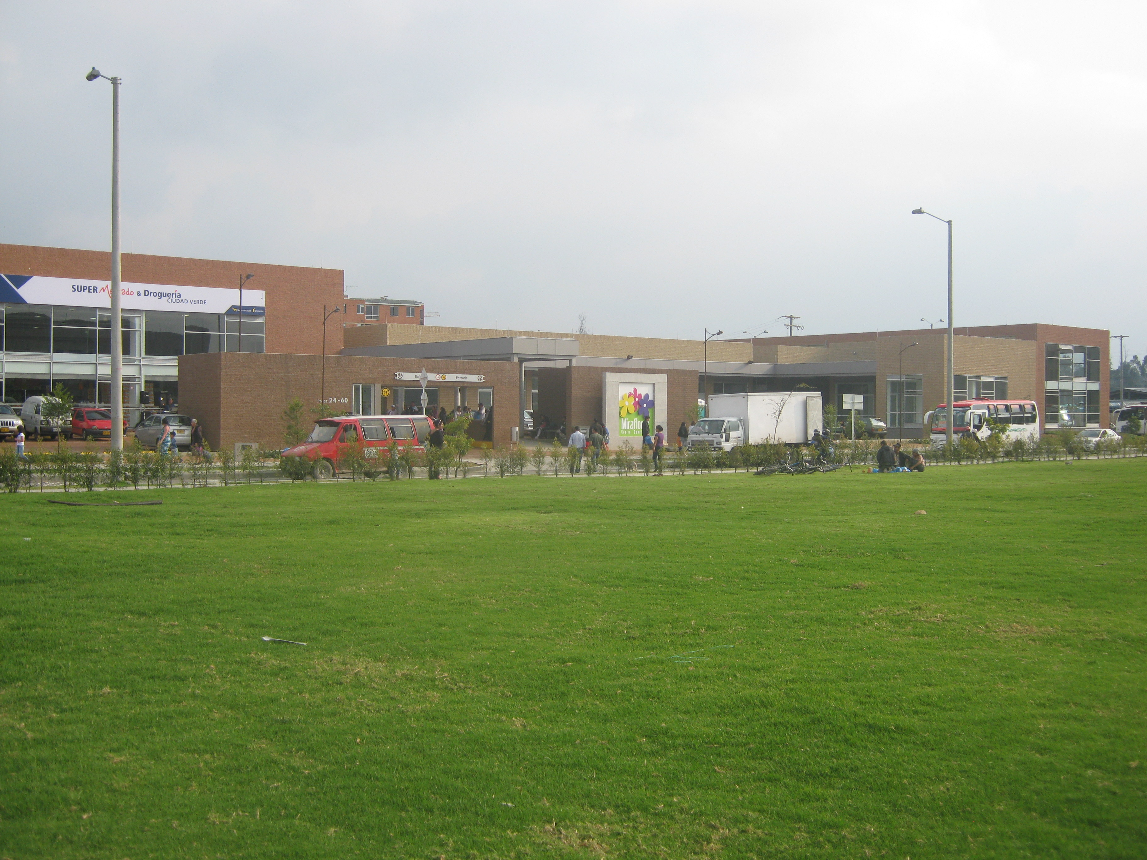 Miraflores Mall. The Colsubsidio's Supermarket (left). Inaugurated to October 12th, 2012